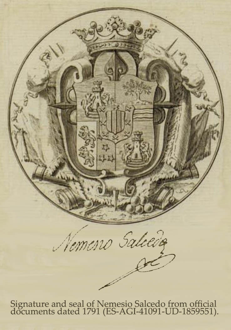 The signature and seal of Colonel {Royal Spanish Army} Nemesio Salcedo in 1791; adapted from digital images of official documents preserved in Archivo General de Indias (ES-AGI-41091-UD-1859551).